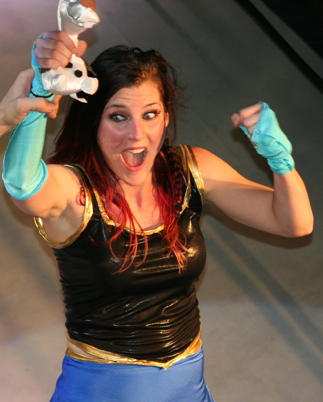 Leva Bates in November 2014.